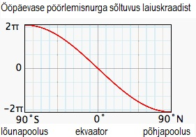 Ööpäevase pöörlemisnurga sõltuvus laiuskraadist